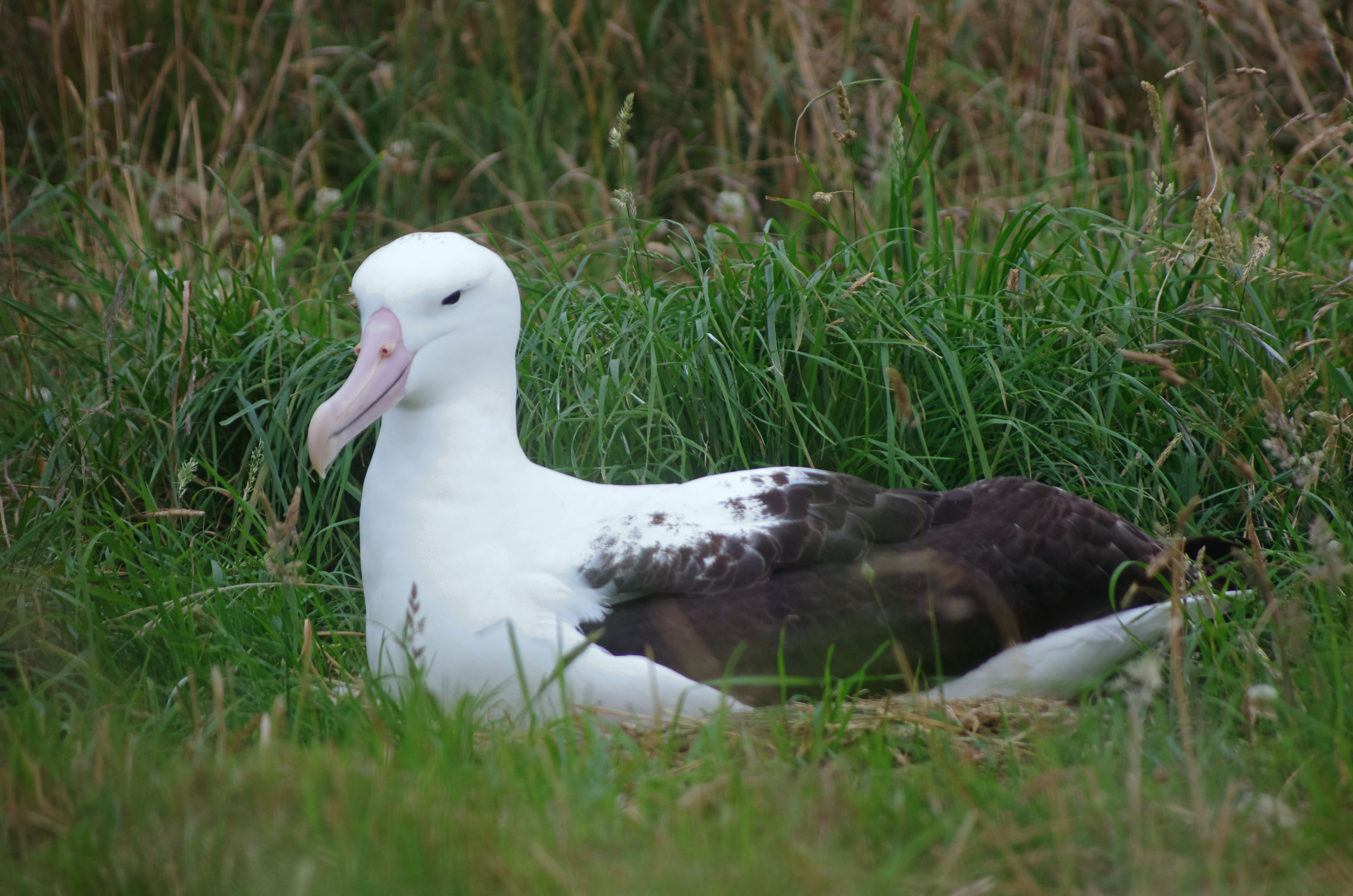 Northern royal albatross, Otago peninsula, South Island, New Zealand